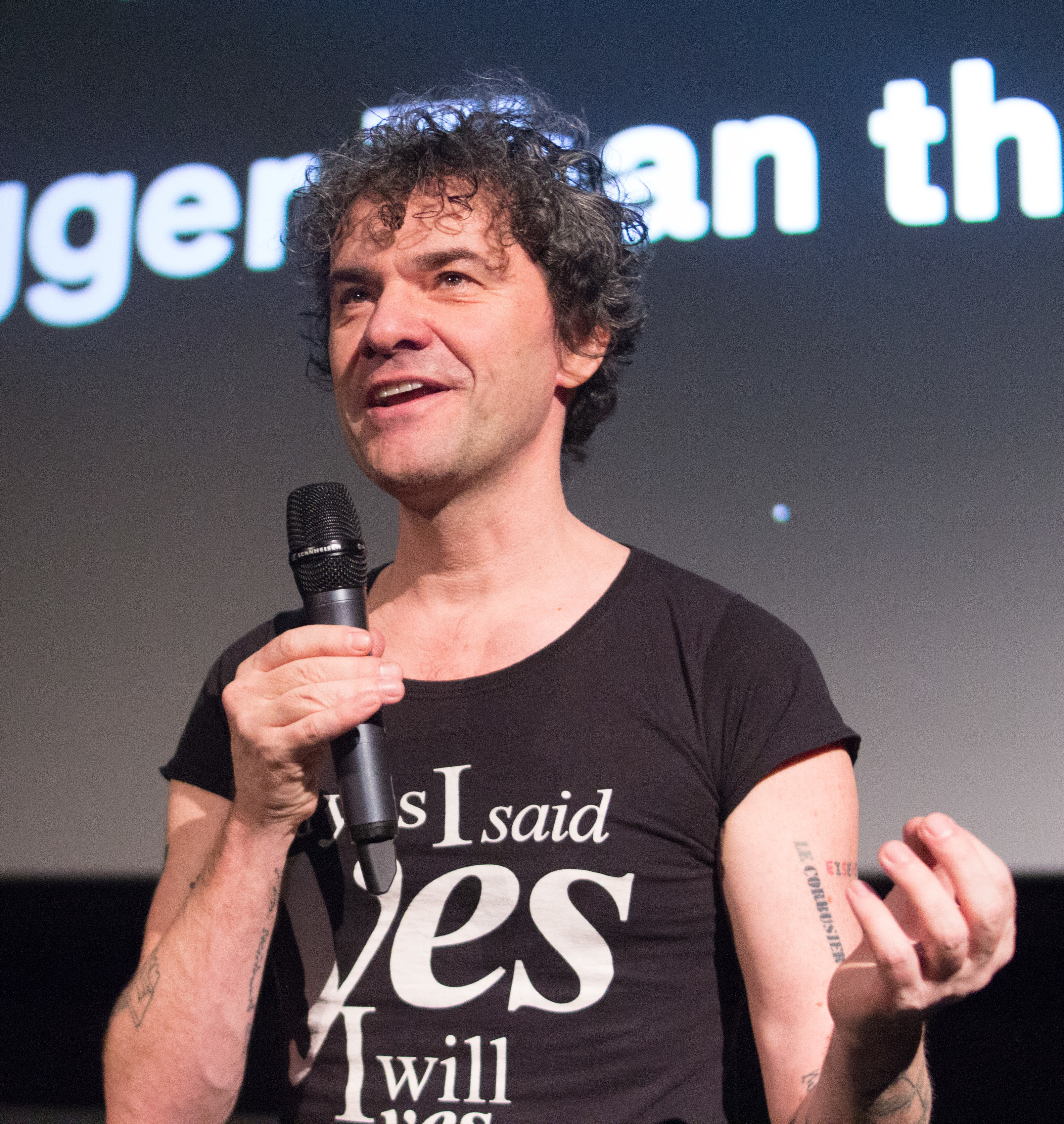 Marc Cousins at the last screening of "Bigger than the Shining"